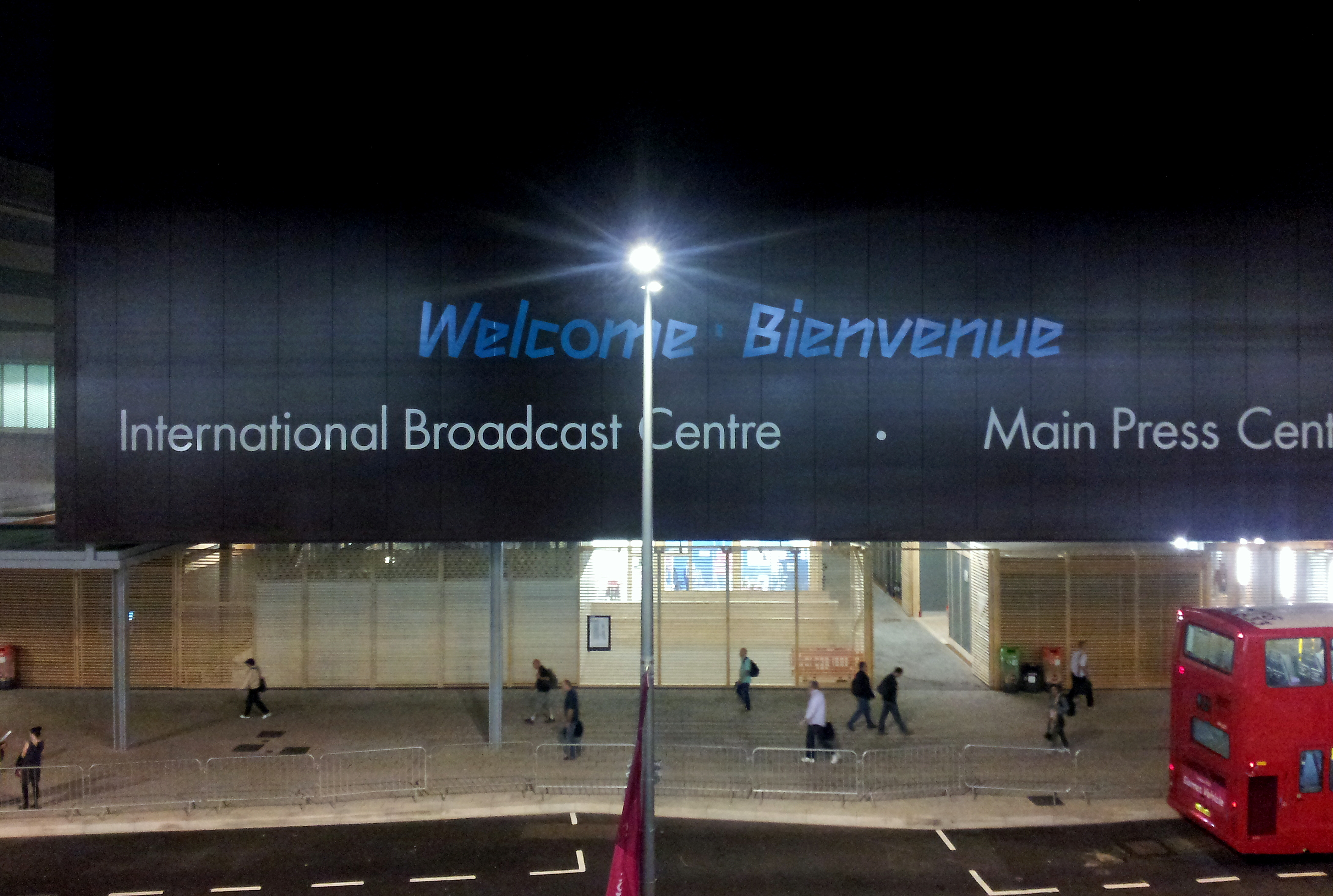 The International Broadcast Centre in the Olympic Park, Stratford, London, taken during The London 2012 Summer Olympic Games